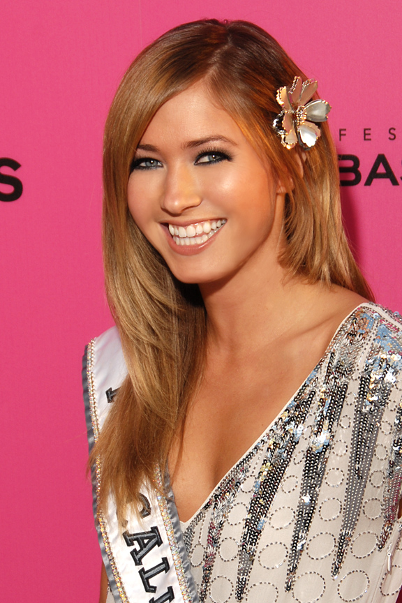 Tami Farrell attending "The 6th Annual Hollywood Style Awards" Beverly Hills, CA on Oct. 10, 2009 - Photo by Glenn Francis of